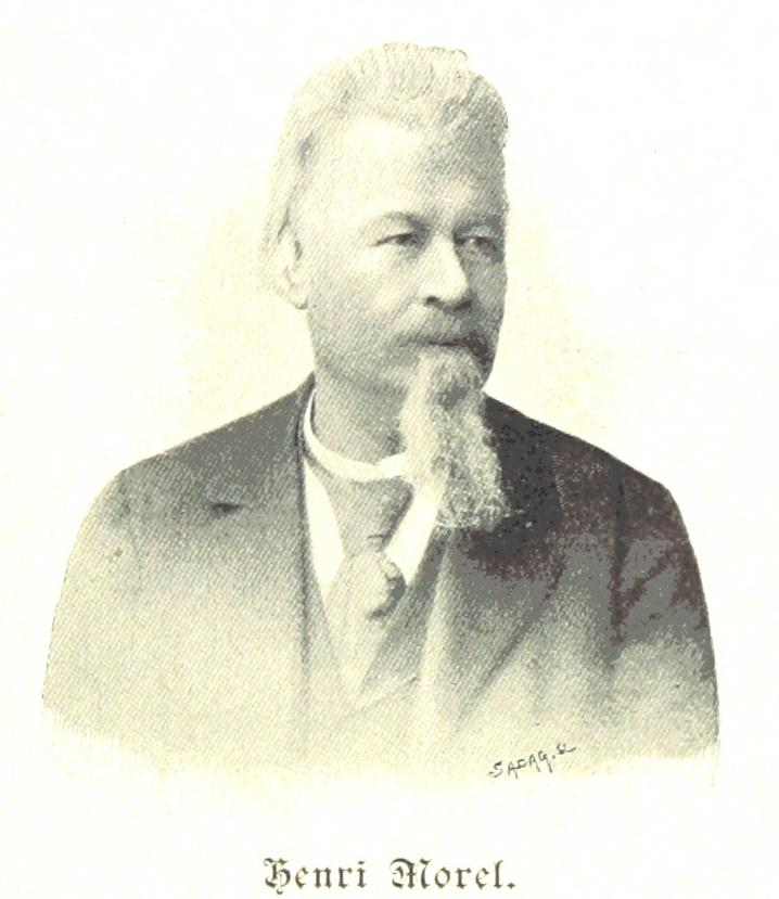 Henri Morel Image taken from: Title: "Die Schweiz im neunzehnten Jahrhundert. Herausgegeben von schweizerischen Schriftstellern unter Leitung von P. Seippel" Author: SEIPPEL, Paul. Shelfmark: "British Library HMNTS 9305.h.2." Volume: 01 Page: 579 Place of Publishing: Lausanne Date of Publishing: 1899 Issuance: monographic Identifier: 003330970 Explore: Find this item in the British Library catalogue, 'Explore'. Download the PDF for this book (volume: 01) Image found on book scan 579 (NB not necessarily a page number) Download the OCR-derived text for this volume: (plain text) or (json) Click here to see all the illustrations in this book and click here to browse other illustrations published in books in the same year.